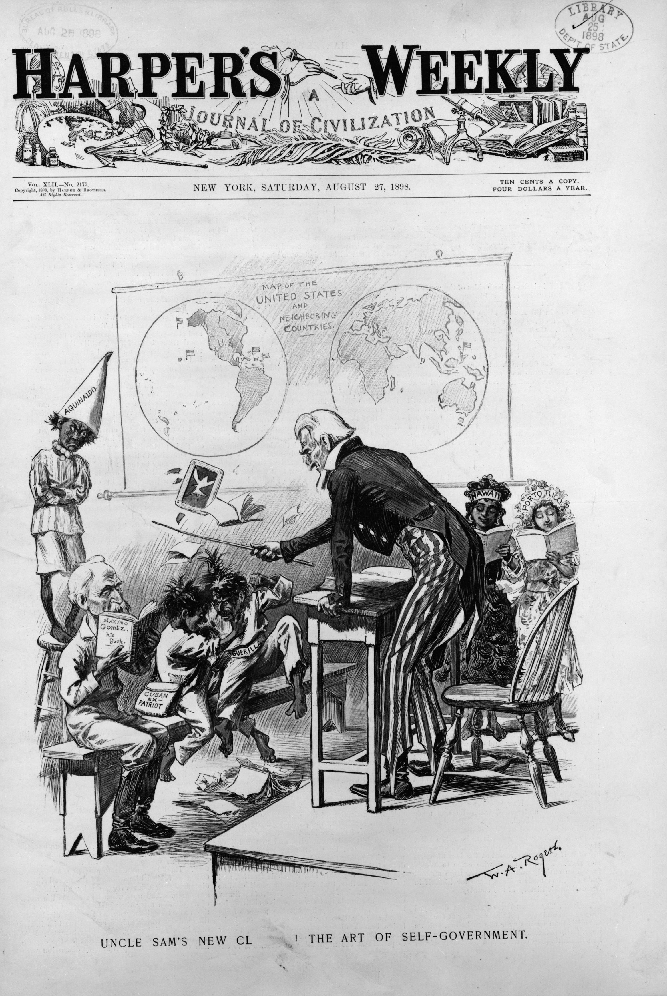 Cover illustration of Harper's Weekly of a cartoon titled "Uncle Sam's new class in the art of self-government." Uncle Sam hits two fighting boys, "Cuban ex-patriot" and "guerrilla", while Cuban general Maximo Gomez sits reading a book, Emilio Aguinaldo in a dunce cap stands on a stool in the back, and Hawaii and Porto [sic] Rico stand to the side reading.